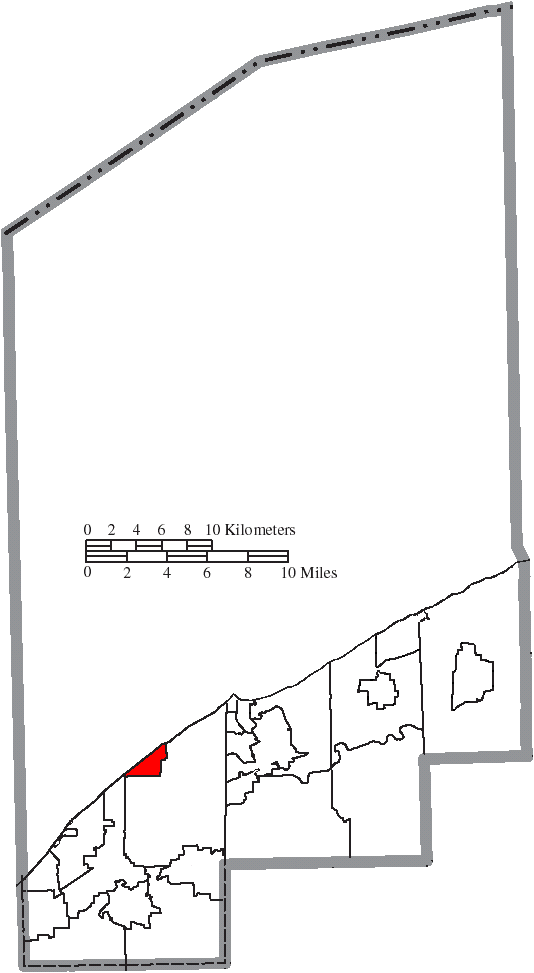 Map of the municipal and township boundaries of Lake County, Ohio, United States, as of the 2000 census, with the location of the city of Mentor-on-the-Lake highlighted. Township borders are shown only in unincorporated areas in order to differentiate incorporated and unincorporated areas more clearly.